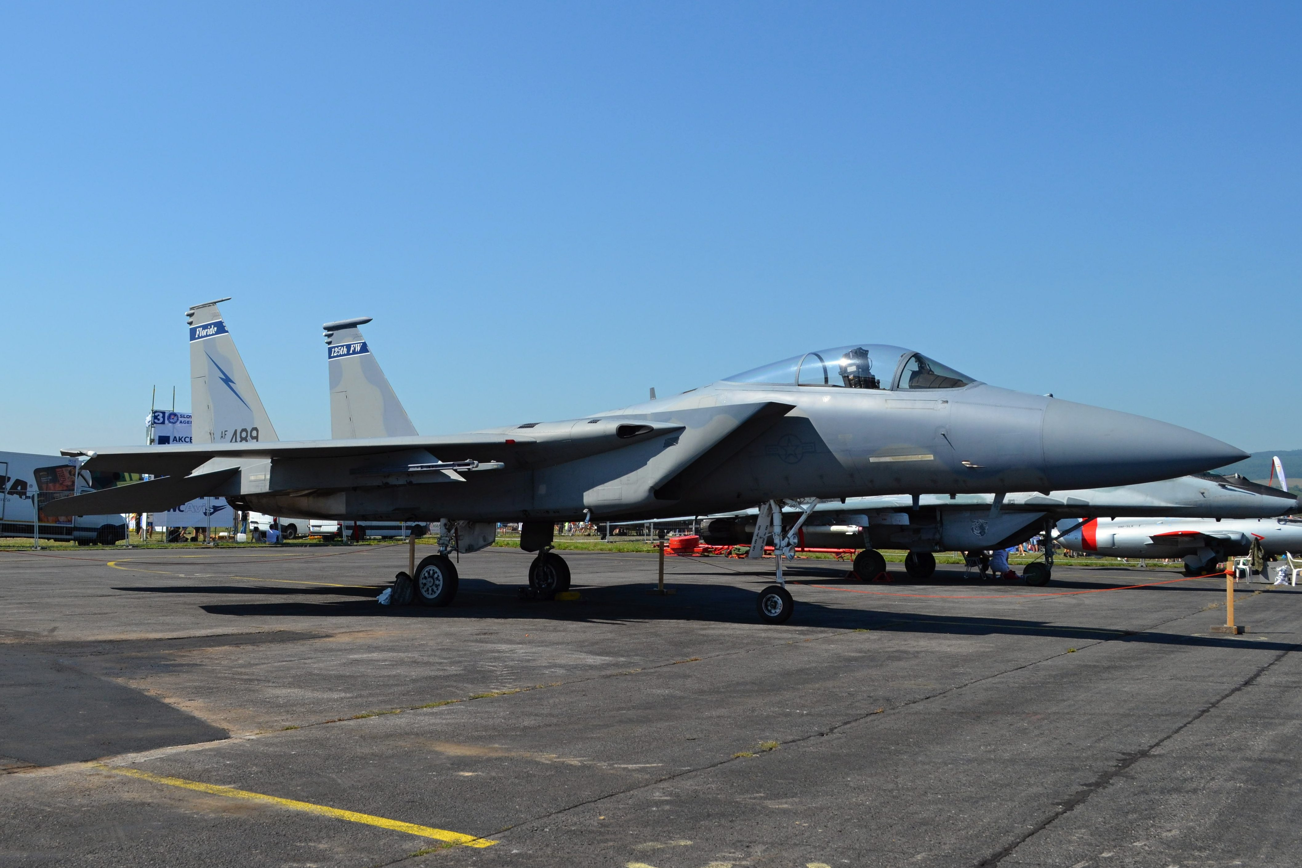 USAF F-15C static display at SIAF 2015